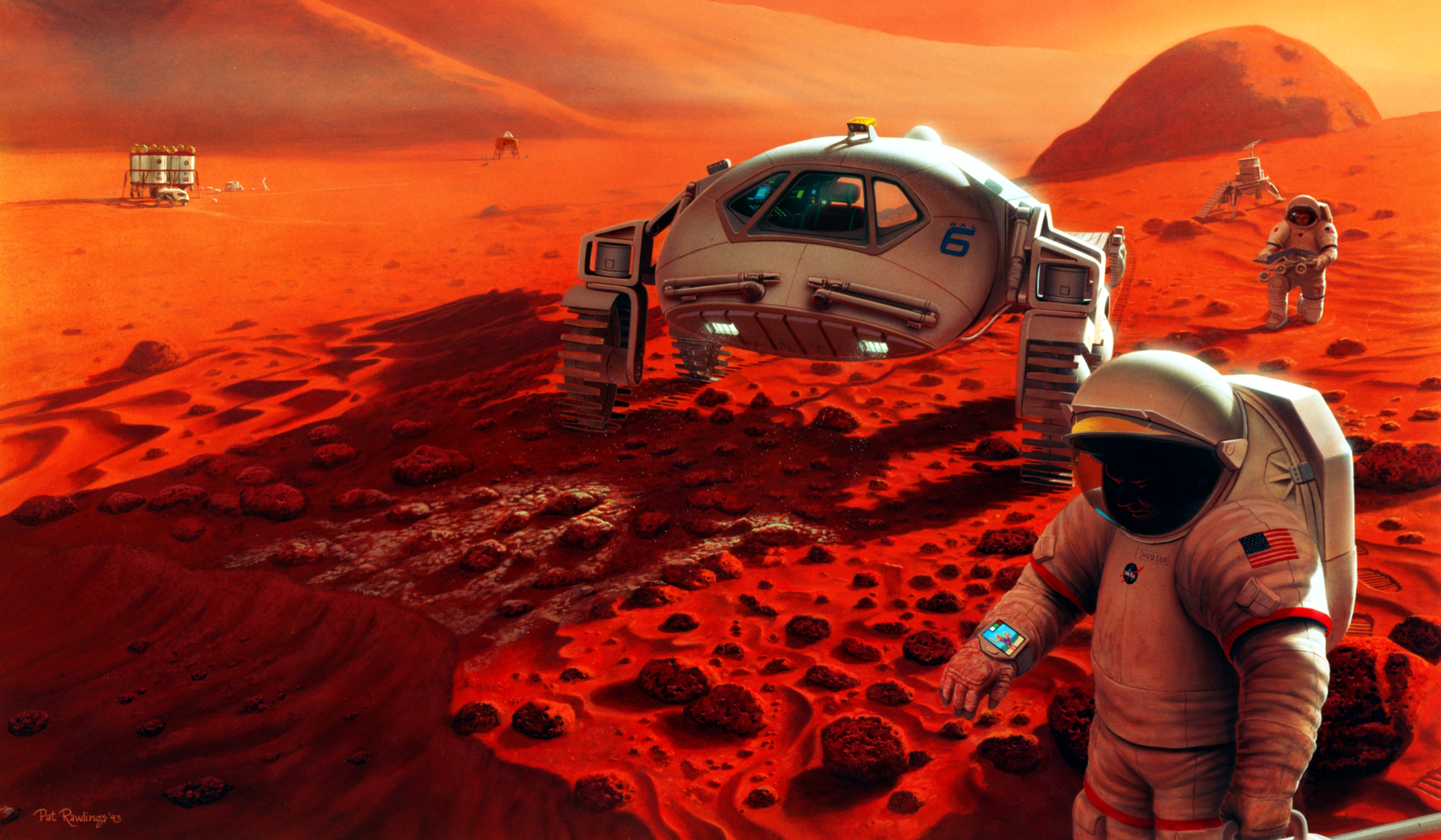 S95-01408 (February 1995) --- (Artist's concept of possible exploration programs.) After driving a short distance from their Ganges Chasma landing site on Mars, two explorers stop to inspect a robotic lander and its small rover. This stop also allows the traverse crew to check out the life support systems of their rover and space suits within walking distance of the base. This artwork was done for NASA by Pat Rawlings, of SAIC.